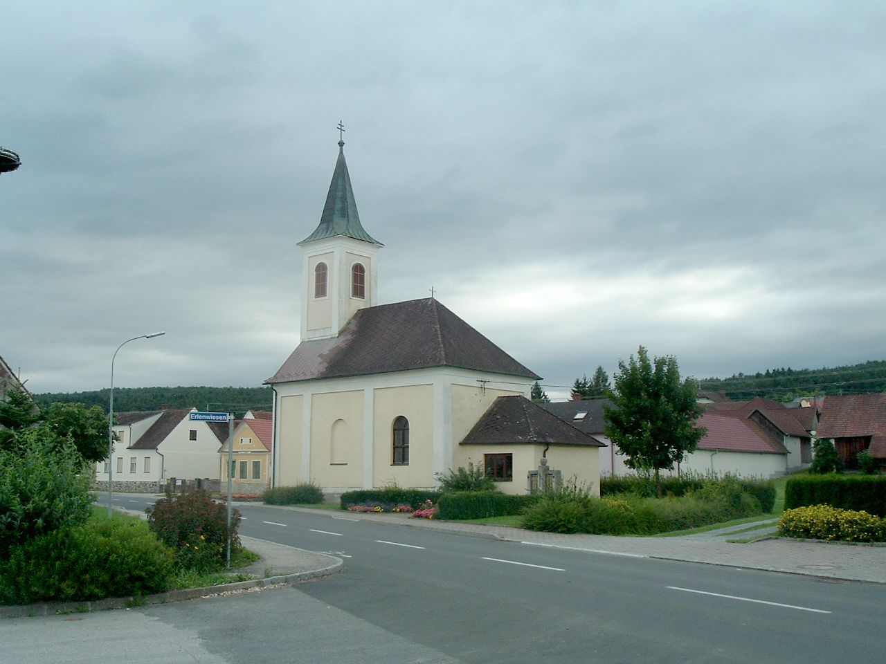 Rohrbach im Burgenland (Jobbágyújfalu)